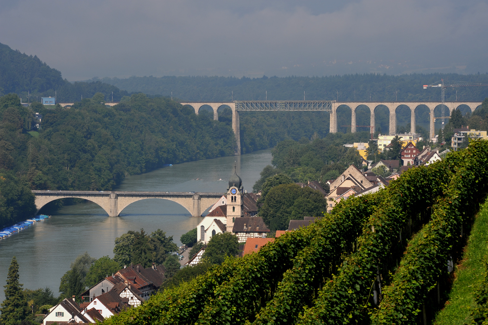 Bridges over river Rhine in Eglisau, view from Förlibuck; Zurich, Switzerland.